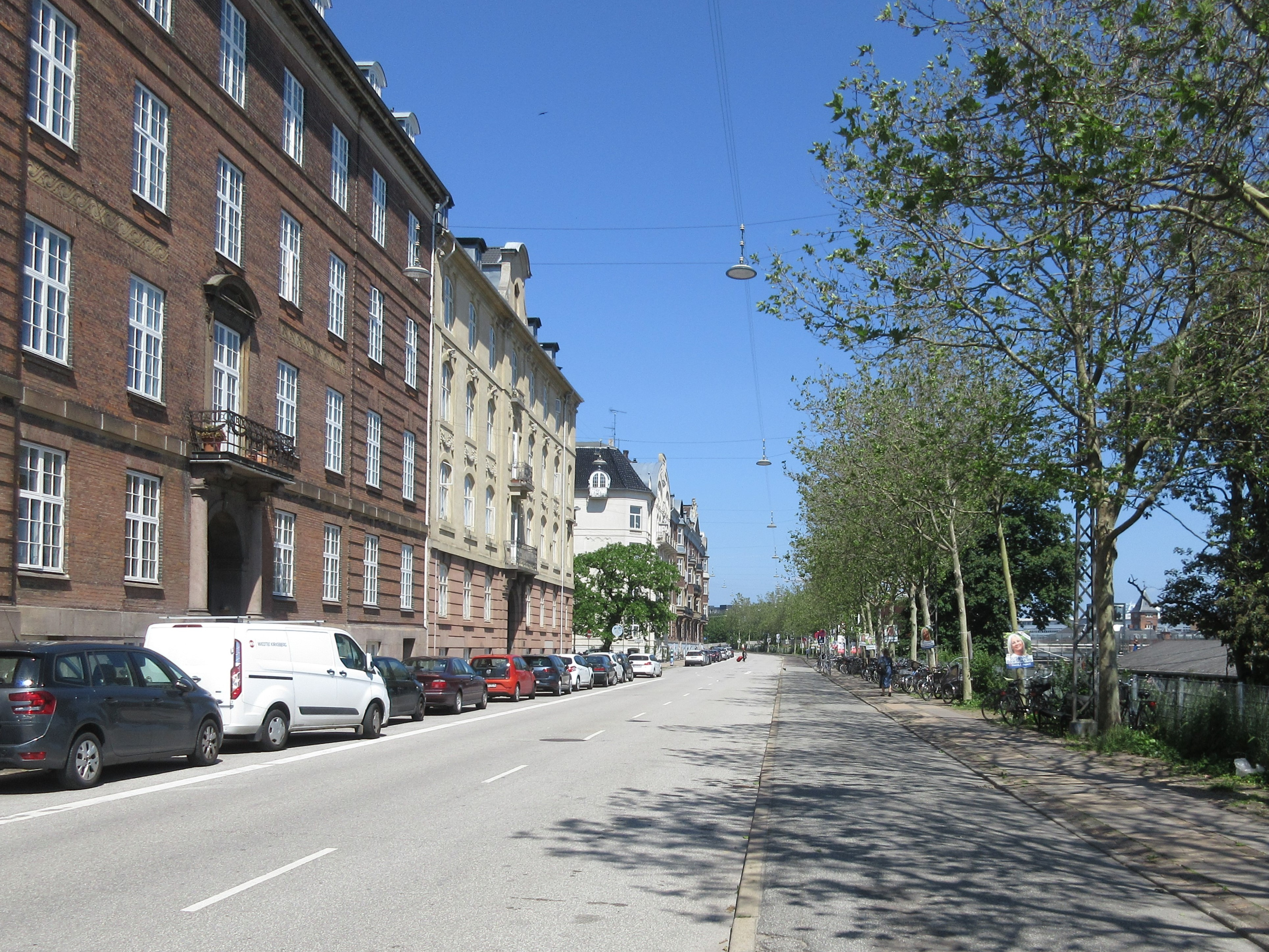 østbanegade in Copenhagen, Denmark